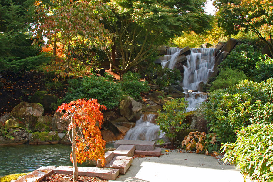 Microsoft RedWest Waterfall